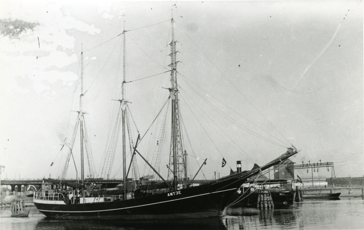 Three-masted motor schooner ANTJE built at Schiffswerft D.W. Kremer Sohn, Elmshorn, as LUDWIG RIEDEMANN (yard № 356, launched: 1912, completed: 1913, 3 cyl explosion engine 75 hp), later names: 1921 ELLA (new engine 2 cyl explosion engine 60 hp), 1925 ERATO, 1927 ANTJE, 1935 KÄTE OLTMANN (new engine 6 cyl Deutz 150 hp), 1950 lengthened and converted from schooner to coastal motor vessel at Stade, 1955 ELISE OLTMANN, 1961 ANDREA LÜHMANN, 1964 RENATE H., 1970 broken up in Germany; collection J. Robert Boman (1926-2002) owned by Sjöhistoriska museet.